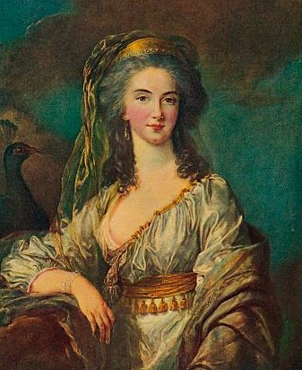 Portrait of a Lady, presumably Marie Joséphine de Lorraine, Princess of Carignan (1753-1797), or Stéphanie Caroline Anne Syms, Lady Edward FitzGerald (1773-1831)